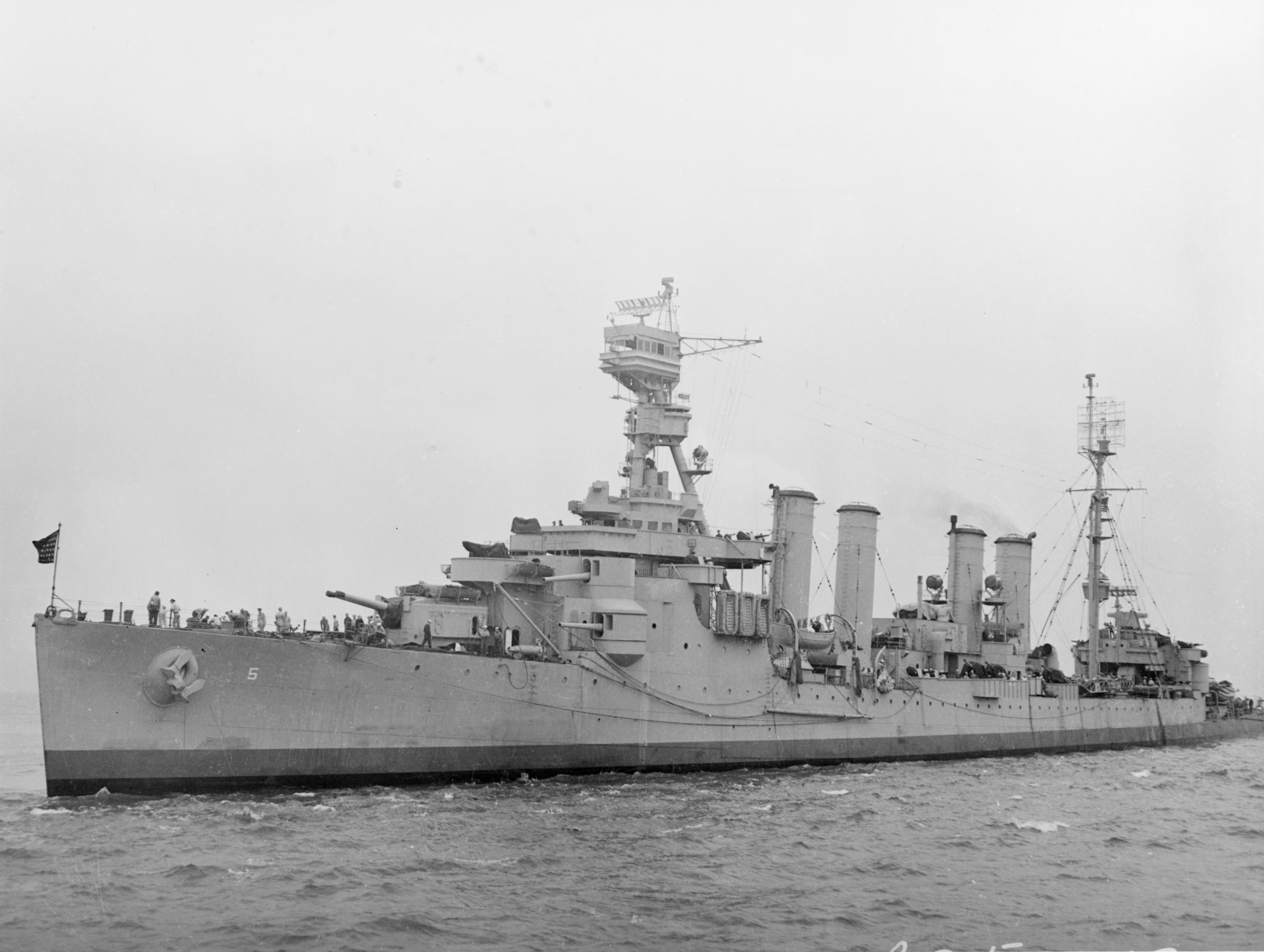 The U.S. Navy light cruiser USS Milwaukee (CL-5) off New York City (USA), circa in August 1943.